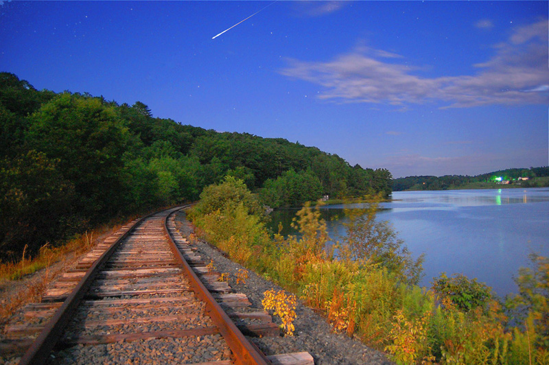 The Passagassawakeag River by the tracks of the Belfast and Moosehead Lake Railroad just beyond the old Upper Bridge about a mile inland from Belfast, ME, as seen by moonlight.